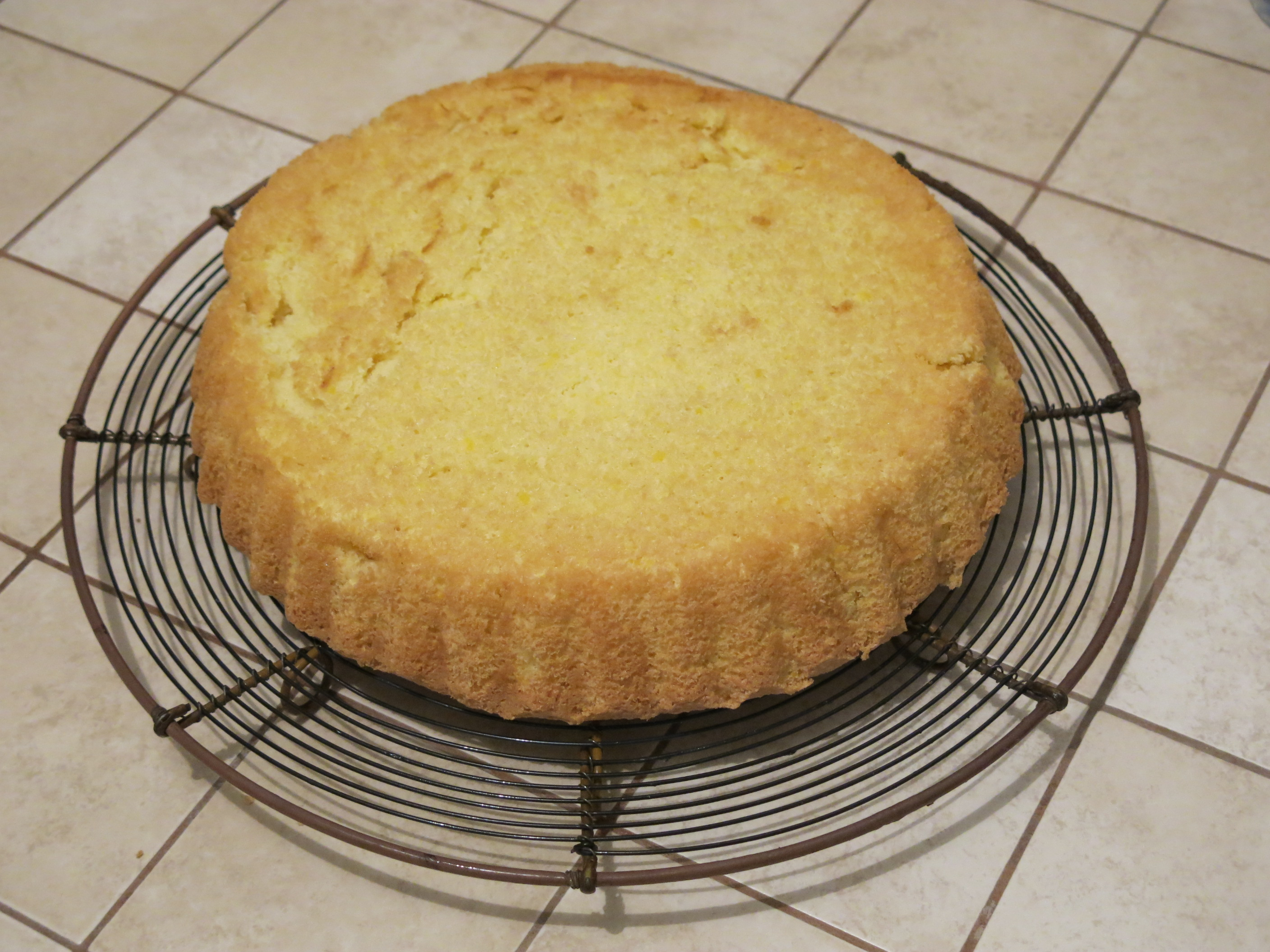 Home made gateau de Savoie (=Savoie cake), France.